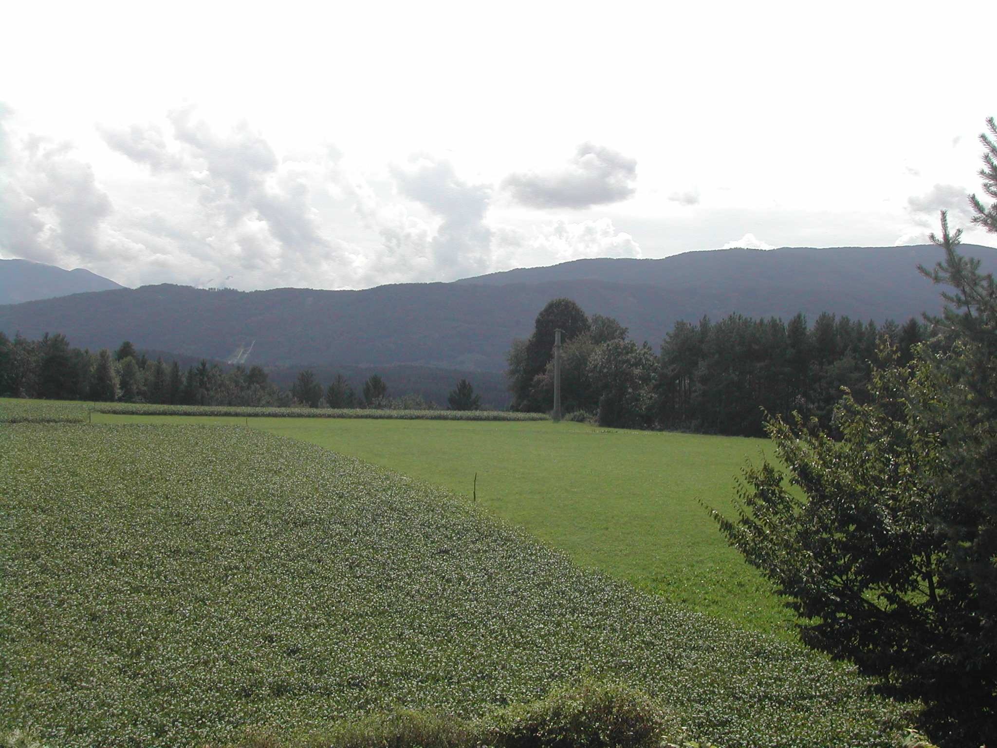 View from the village Gritschach in the cadastral quarter Wollanig at the Dobratsch mountain, Carinthia, Austria